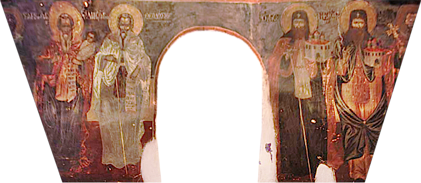 Archangels Monastery Kousko Fresco